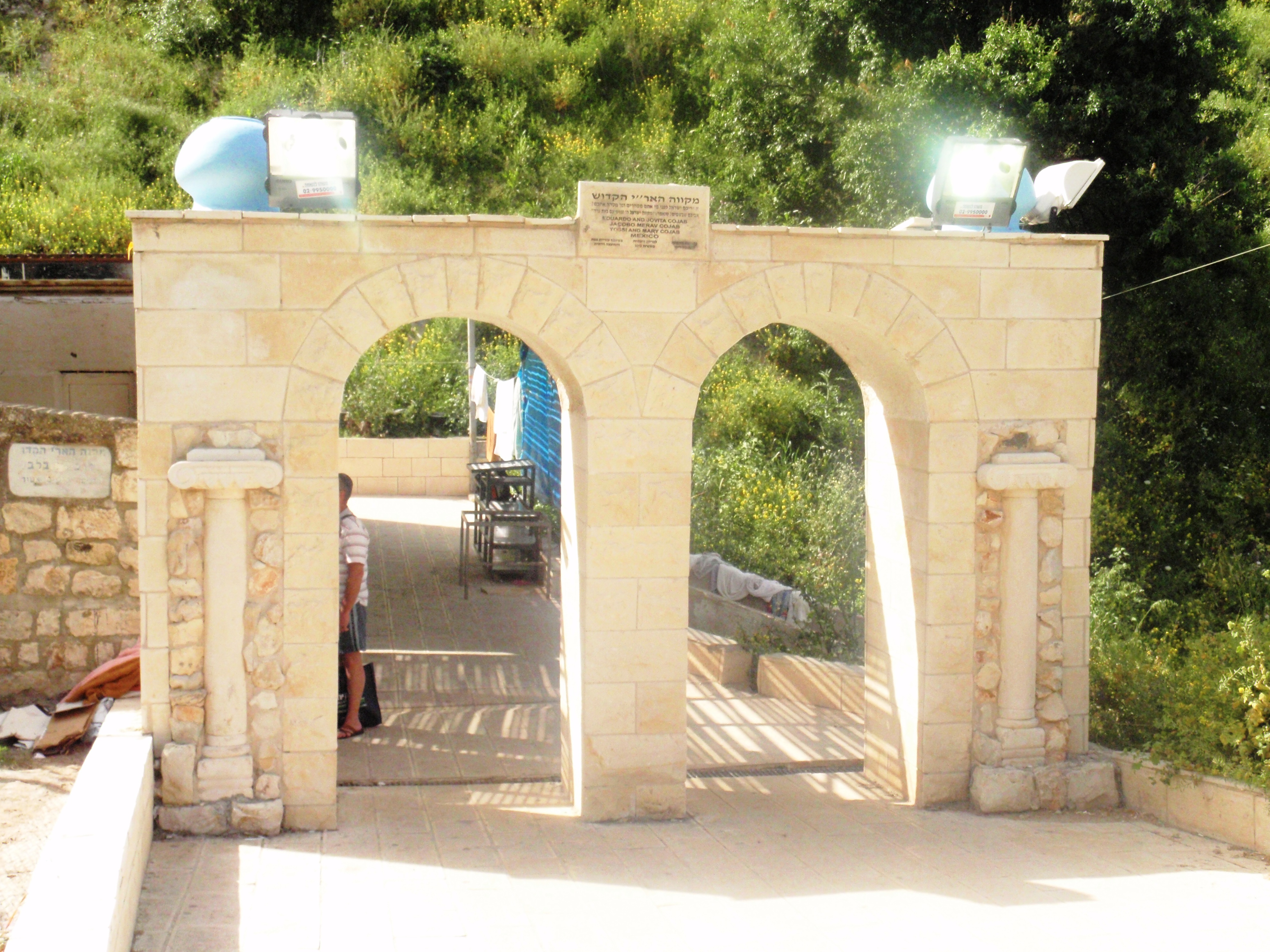 Israel - Safed - the entrance of the Ari mikveh.